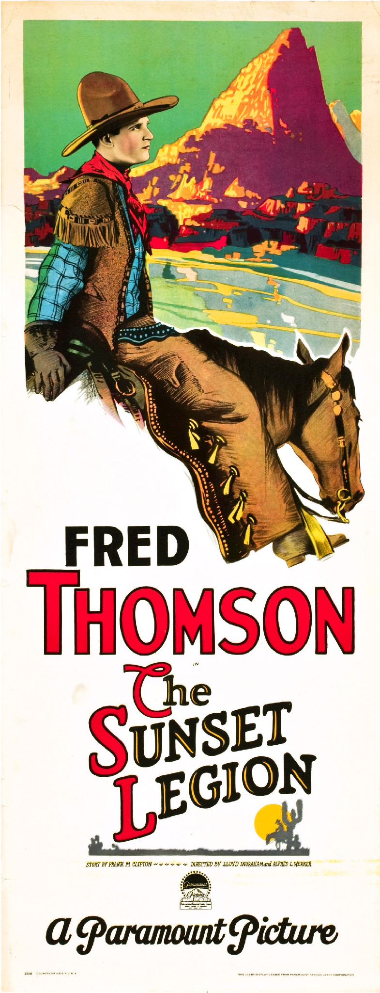 Poster for the American western film The Sunset Legion (1928). There are no copyright marks on the item, which can be seen at the link. At bottom left is 2714-Country of origin USA. At bottom right is This lobby display leased from Paramount Famous Lasky Corporation.